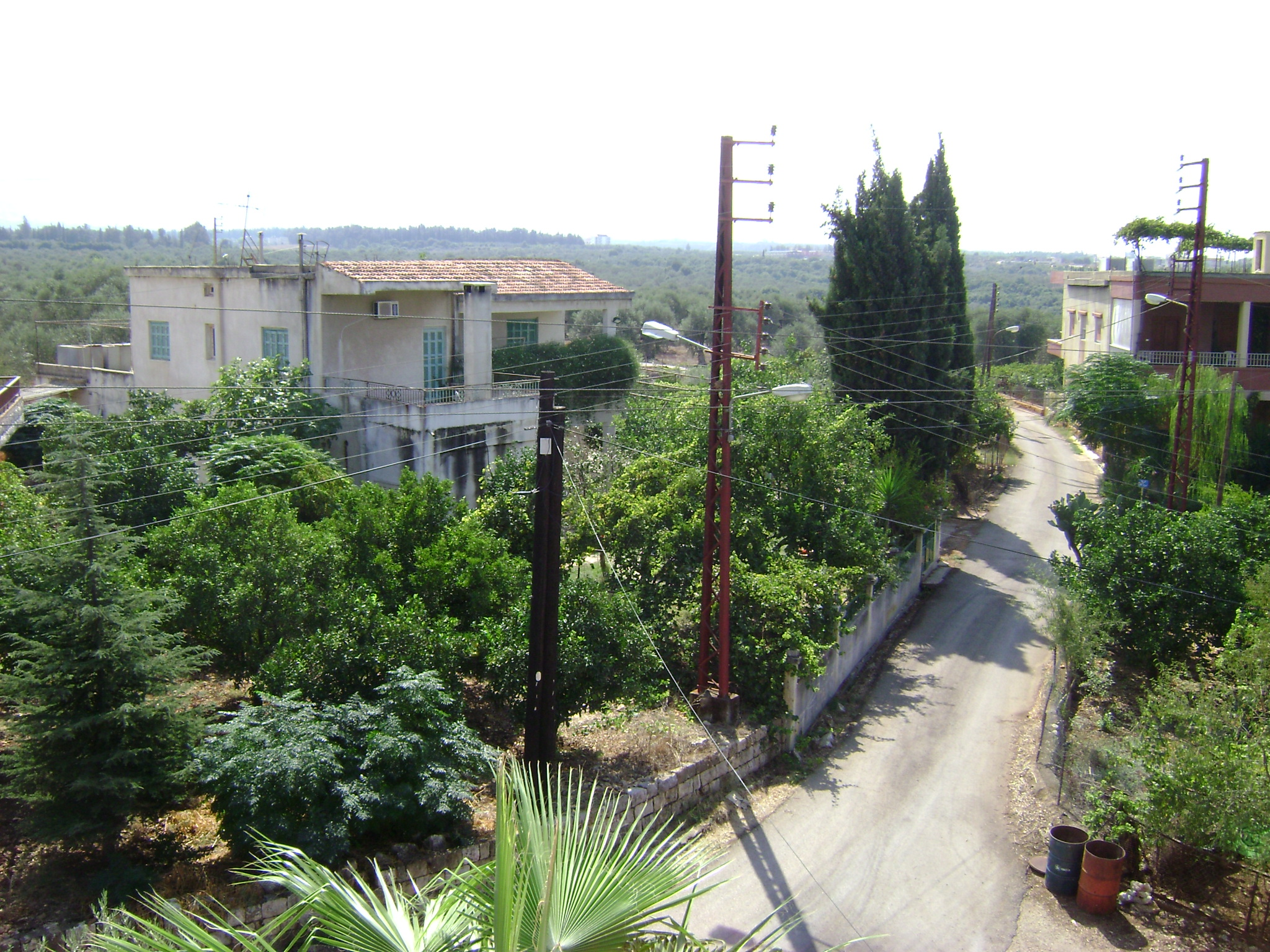 This is an overview of the village.